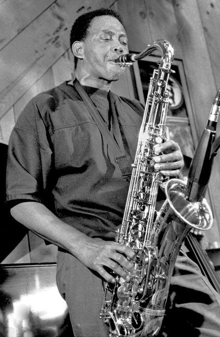 Odean Pope at Bach Dancing & Dynamite Society, Half Moon Bay CA 8/7/88. Photo by Brian McMillen /